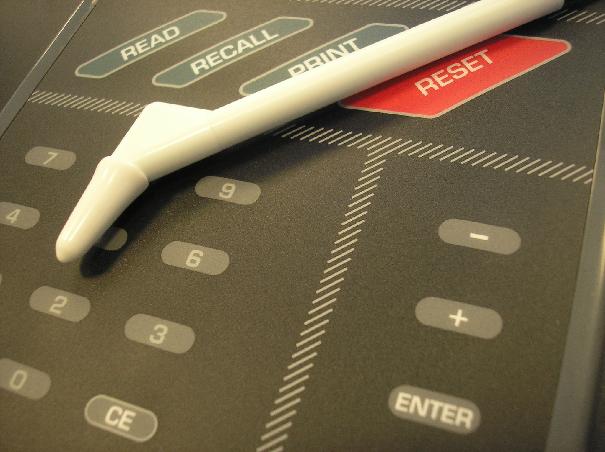 pachymeter, measures corneal thickness. essential puzzle part for the diagnosis of glaucoma.